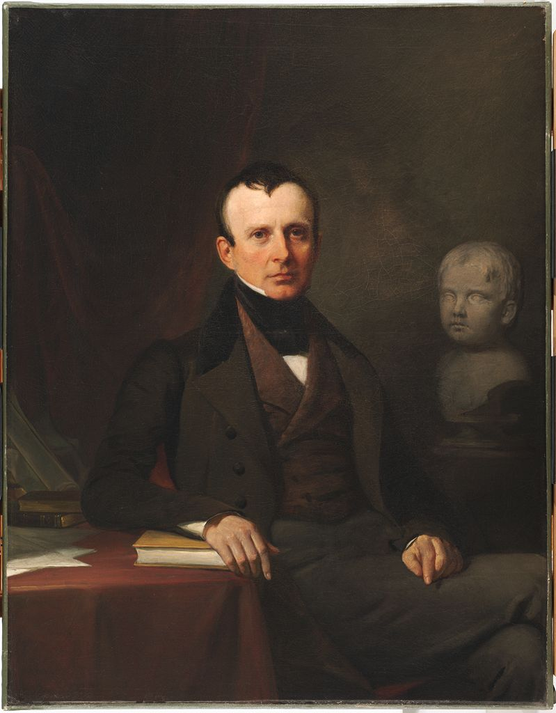 Francis Calley Gray (1790-1856) oil on canvas